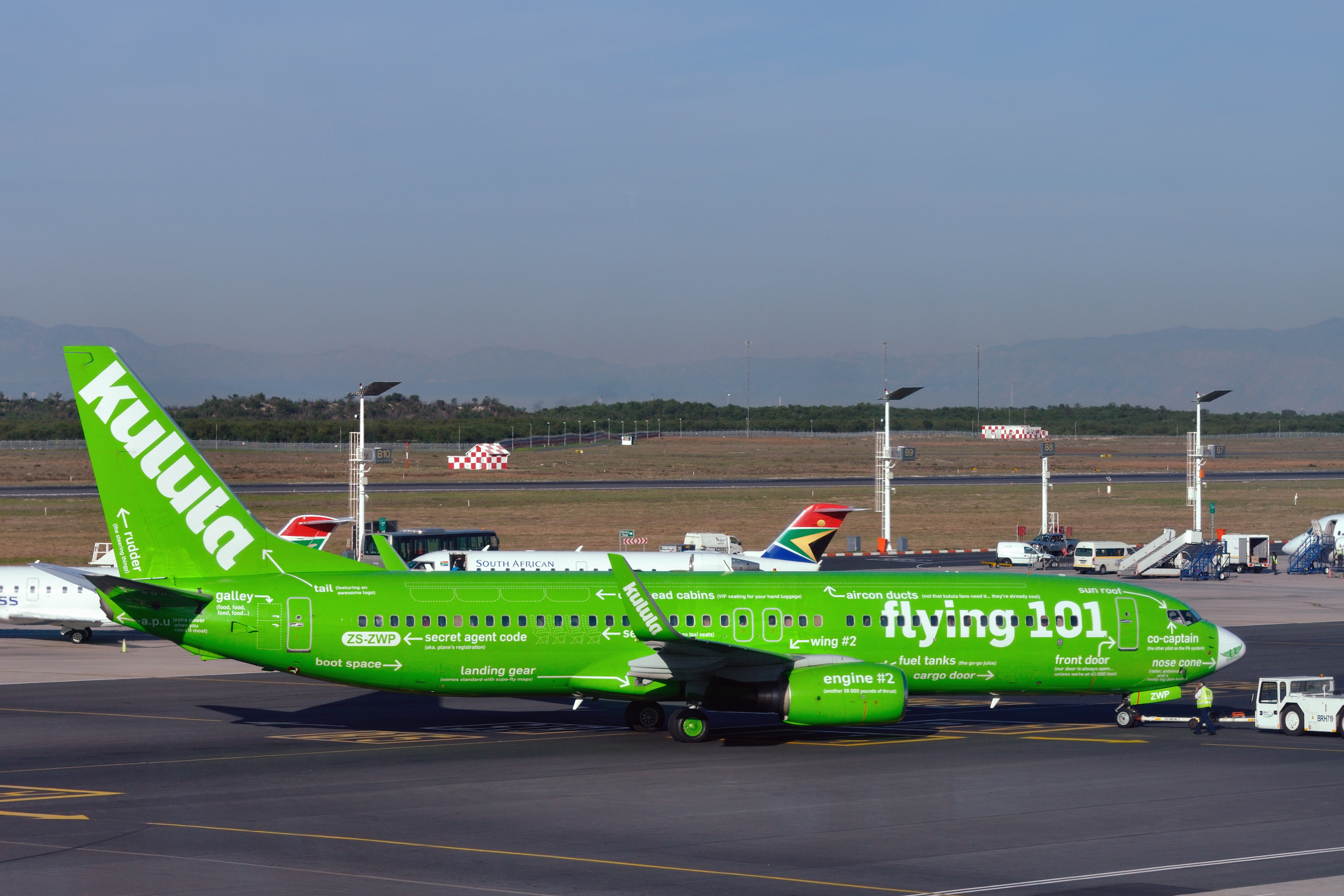 South Africa, spotting at Cape Town International